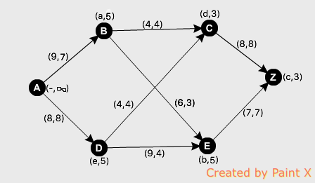 Slika 2.5